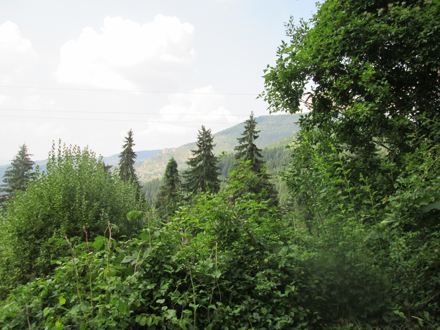 This image was uploaded as part of Trace of Soul 2015.